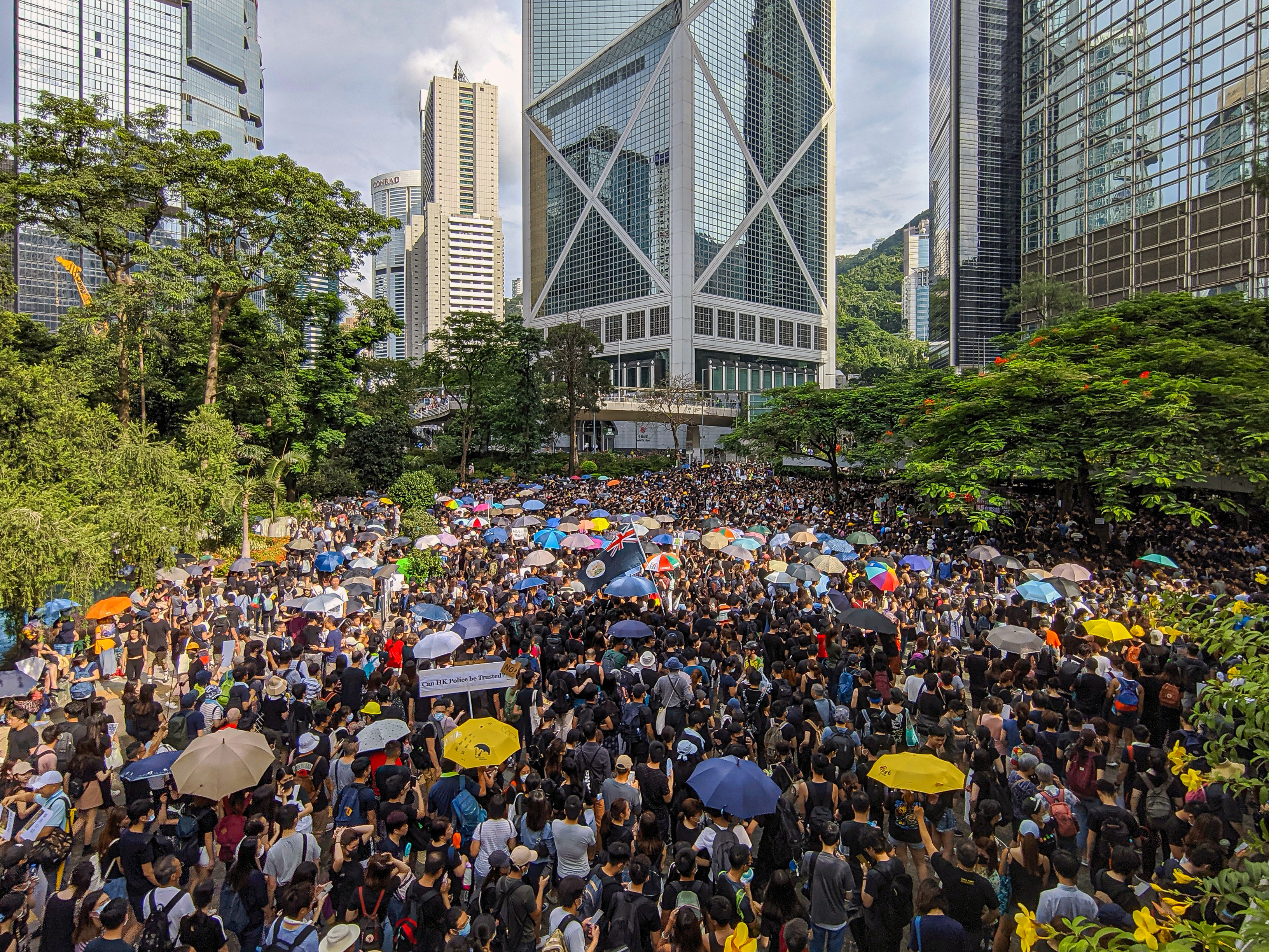 2019 Hong Kong anti-extradition law protest on 28 July 2019 in Hong Kong Island, captured by Studio Incendo from Flickr.